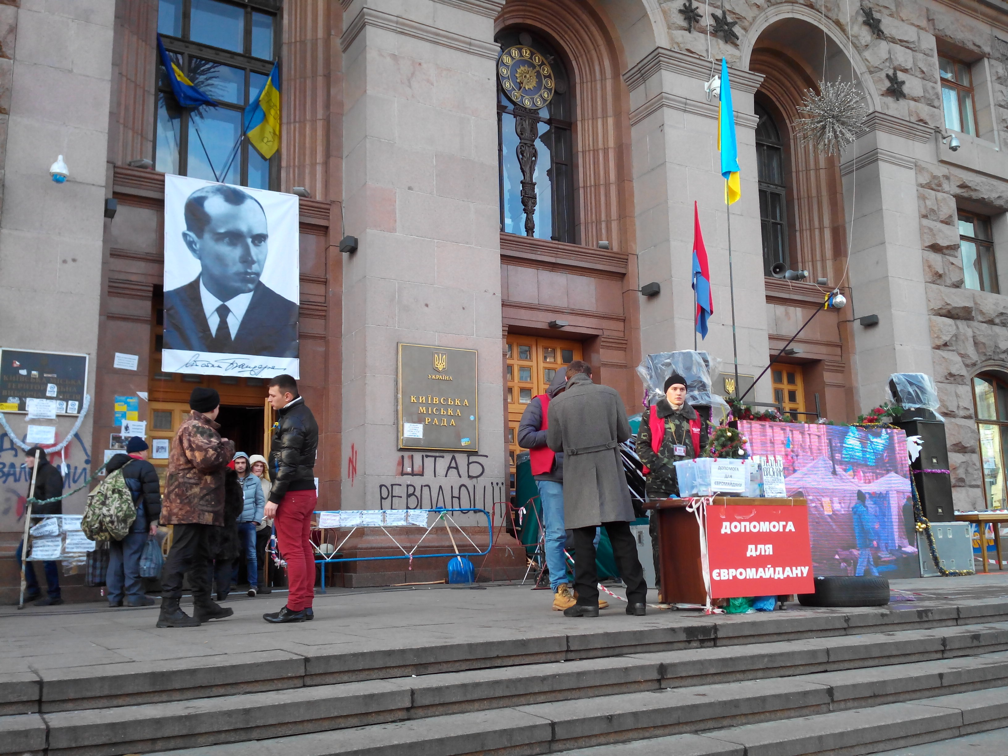 Kiev City council was turned into the headquarters of the revolution. At the front entrance there is a portrait of Stepan Bandera - fighter for the independence of Ukraine. Kiev, January 14, 2014.